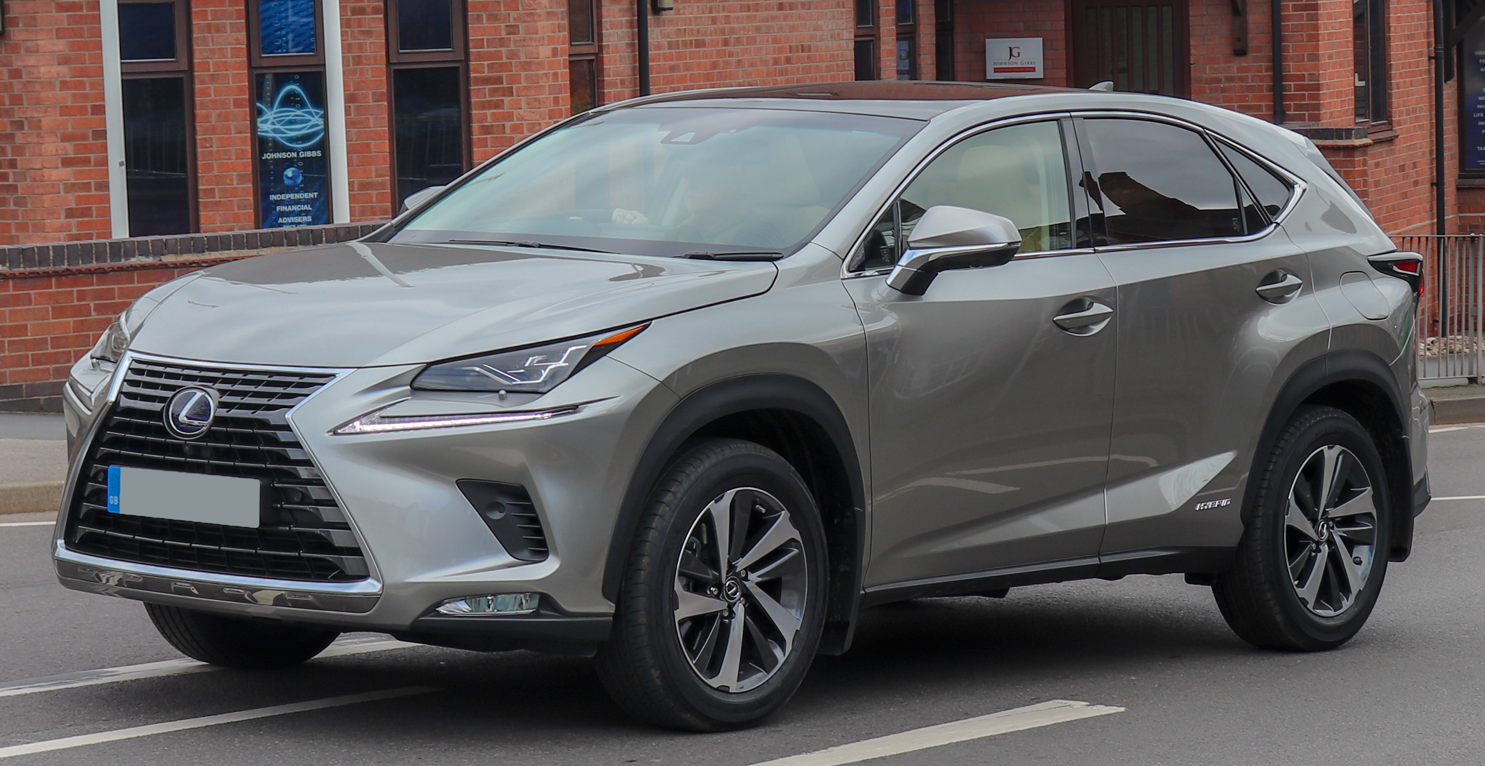 2019 Lexus NX 300h Takumi CVT 2.5 Taken in Warwick